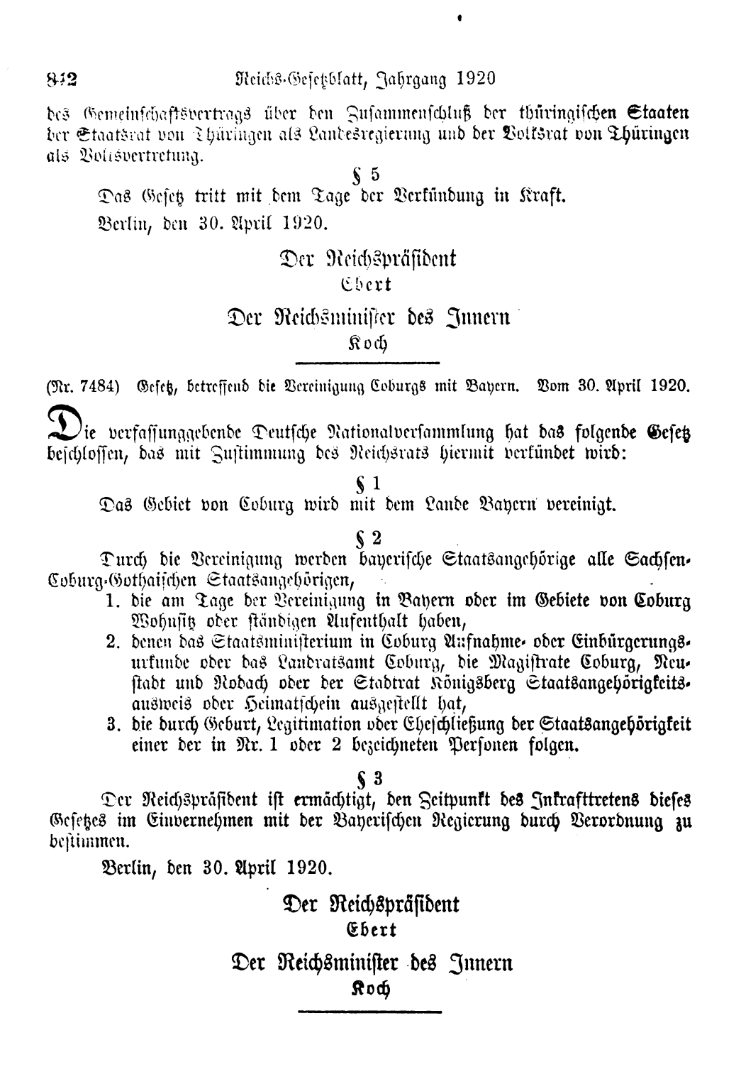 Scan from the Imperial Law Gazette of Germany, 1920